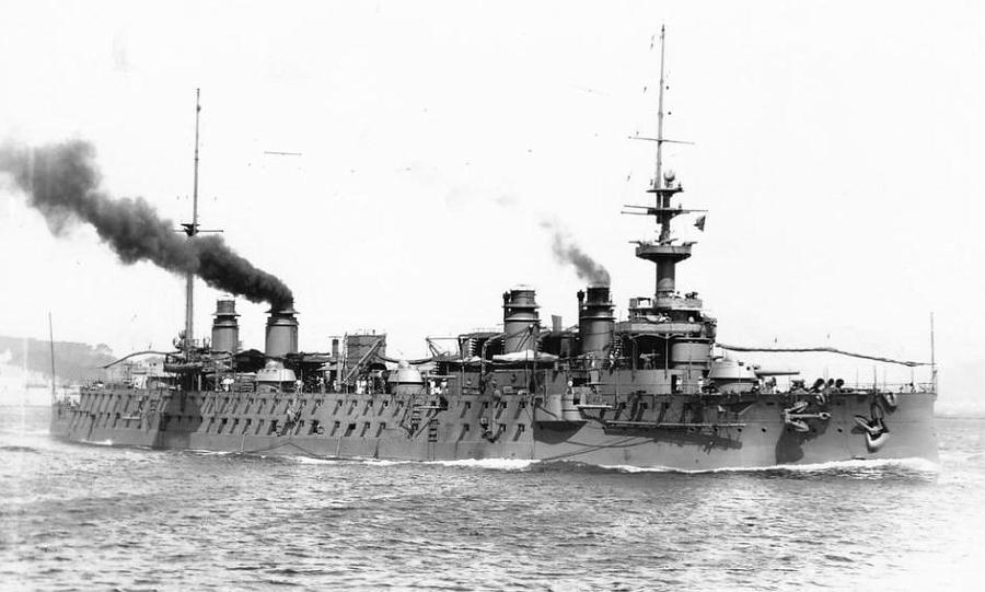 French armoured cruiser Gloire